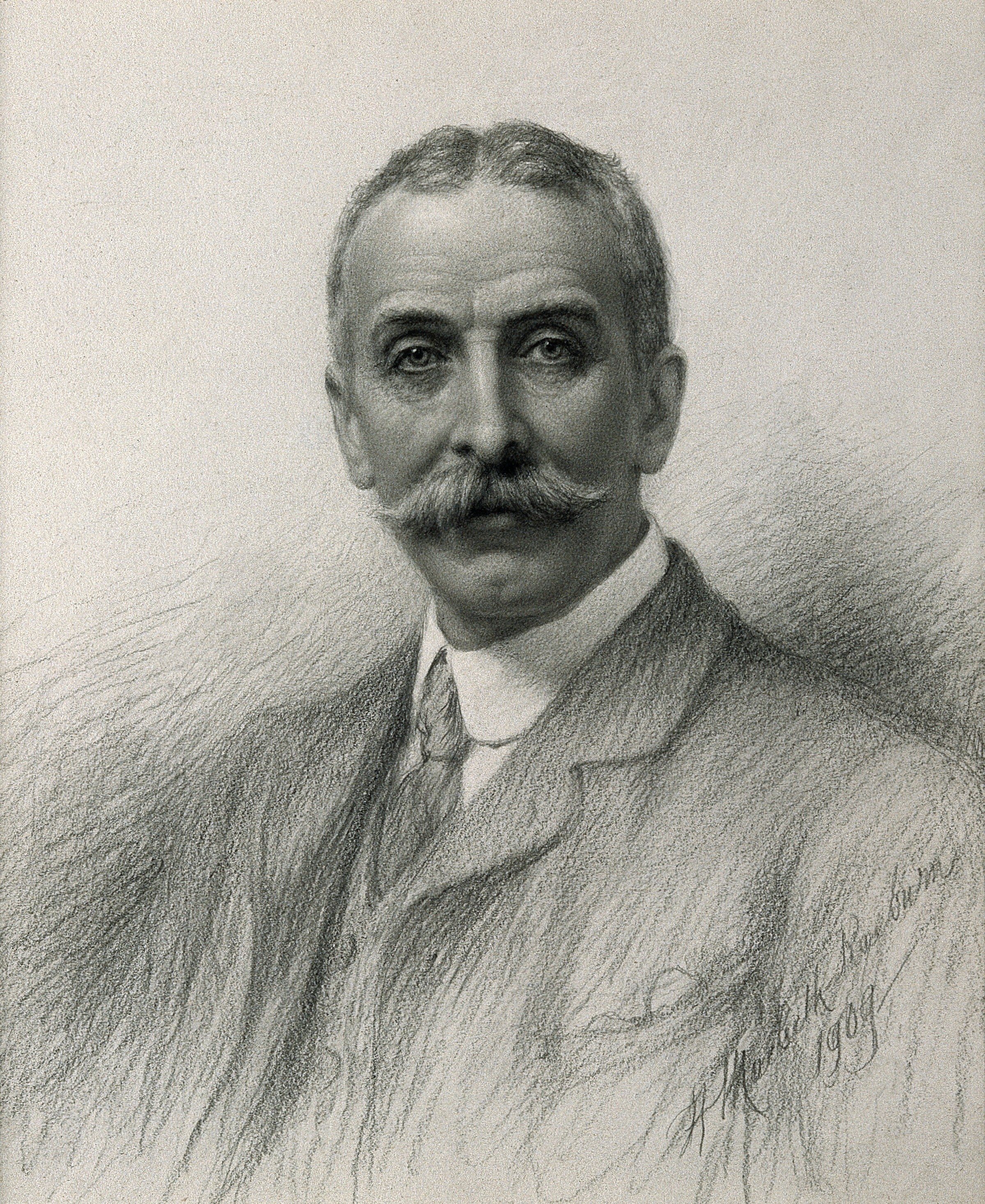 Edward Law. Pencil drawing by H. M. Raeburn, 1909. Iconographic Collections Keywords: portrait prints; Edward Law; Patients; portrait drawings; Hospitals; H. M. Raeburn; drypoints